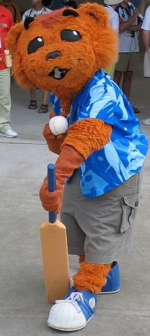 Mello, cricket world cup 2007 mascot, cropped tightly